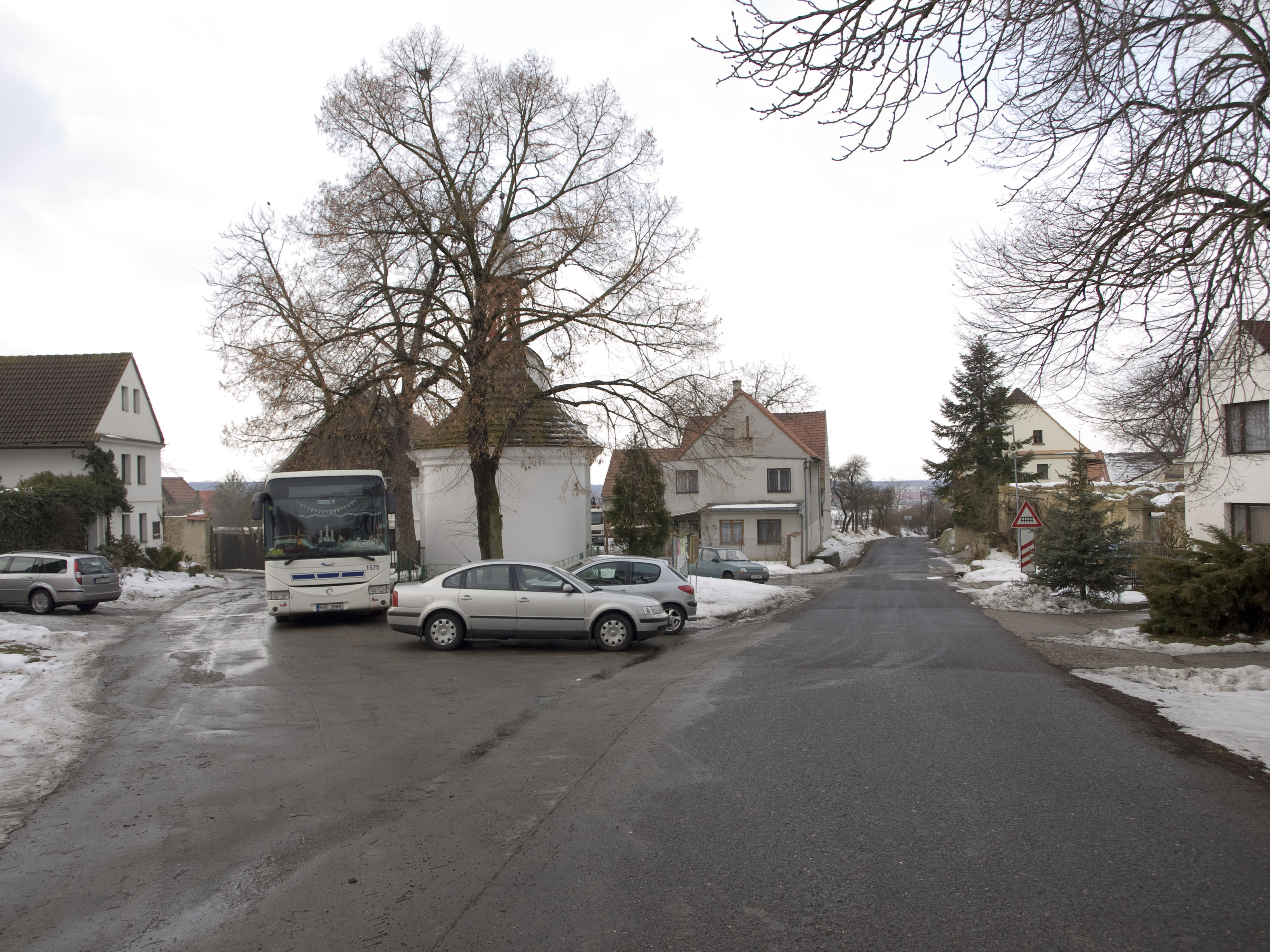 Village square, Stračí, Ústí nad Labem Region